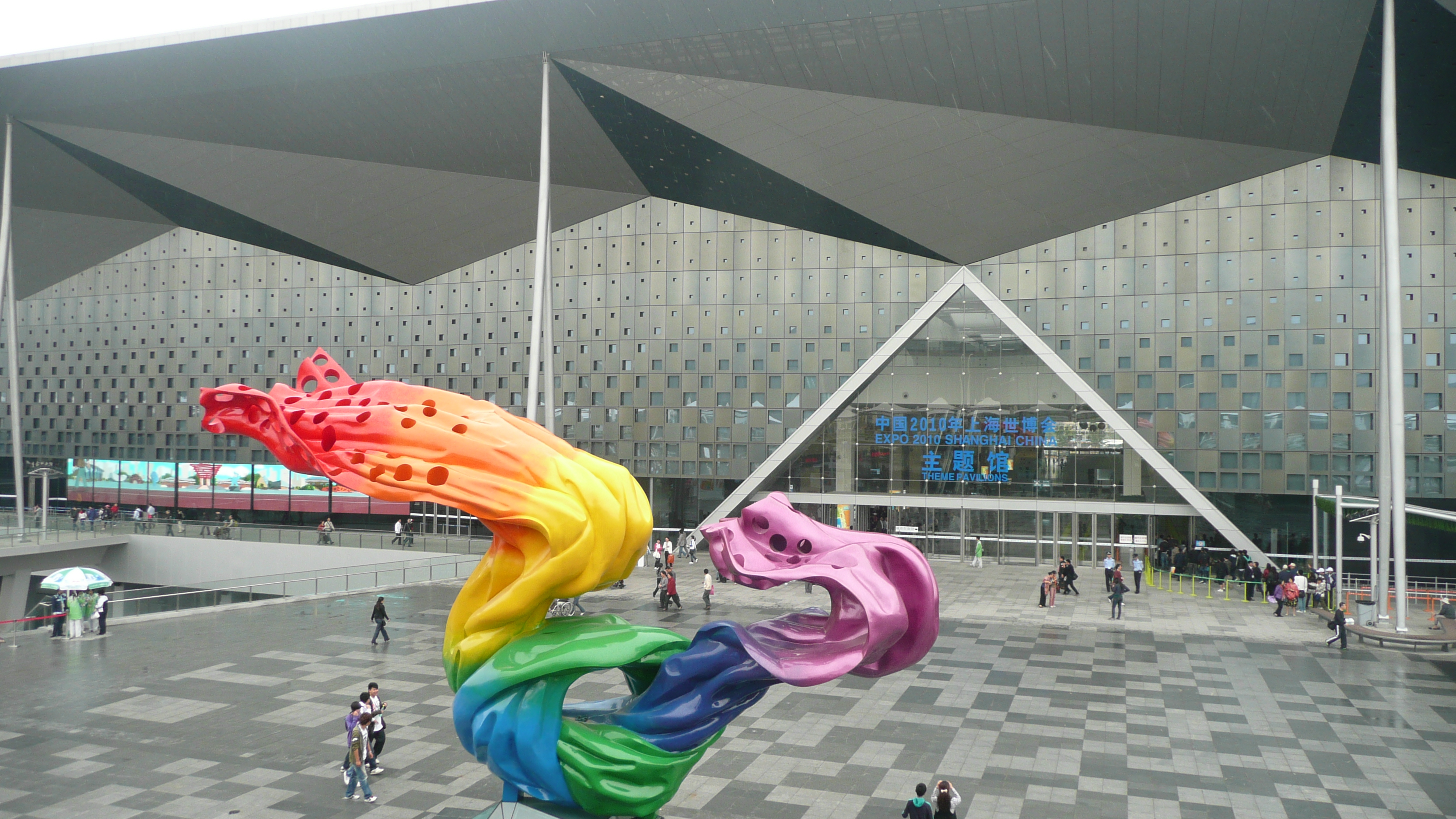 Expo 2010 Shanghai, Theme Pavilions